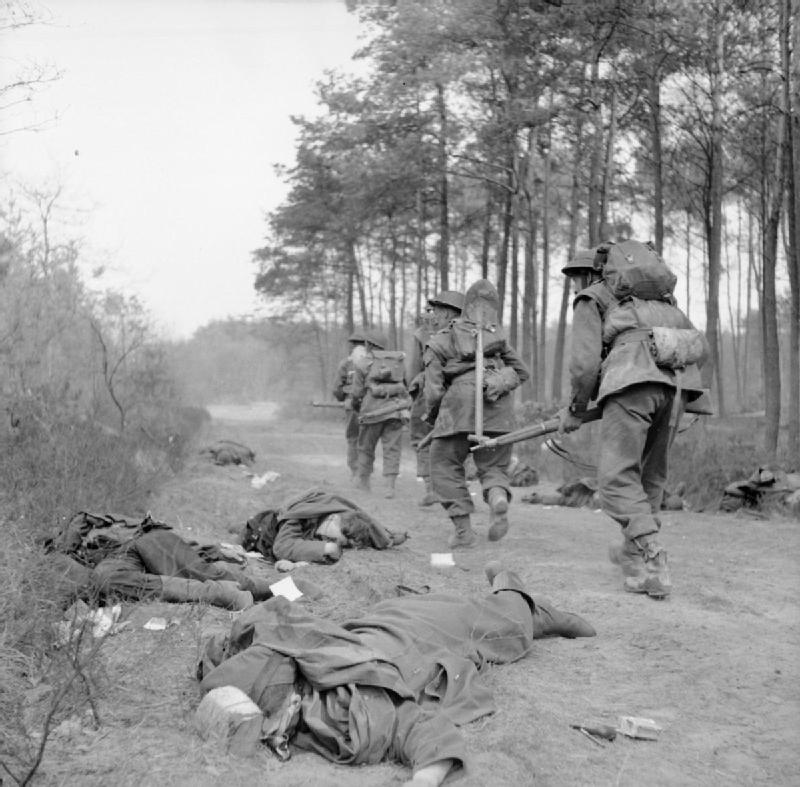 The British Army in North-west Europe 1944-45 Troops of the 6th King's Own Scottish Borderers advance warily along a lane, past the bodies of German soldiers, east of the Rhine, 25 March 1945.